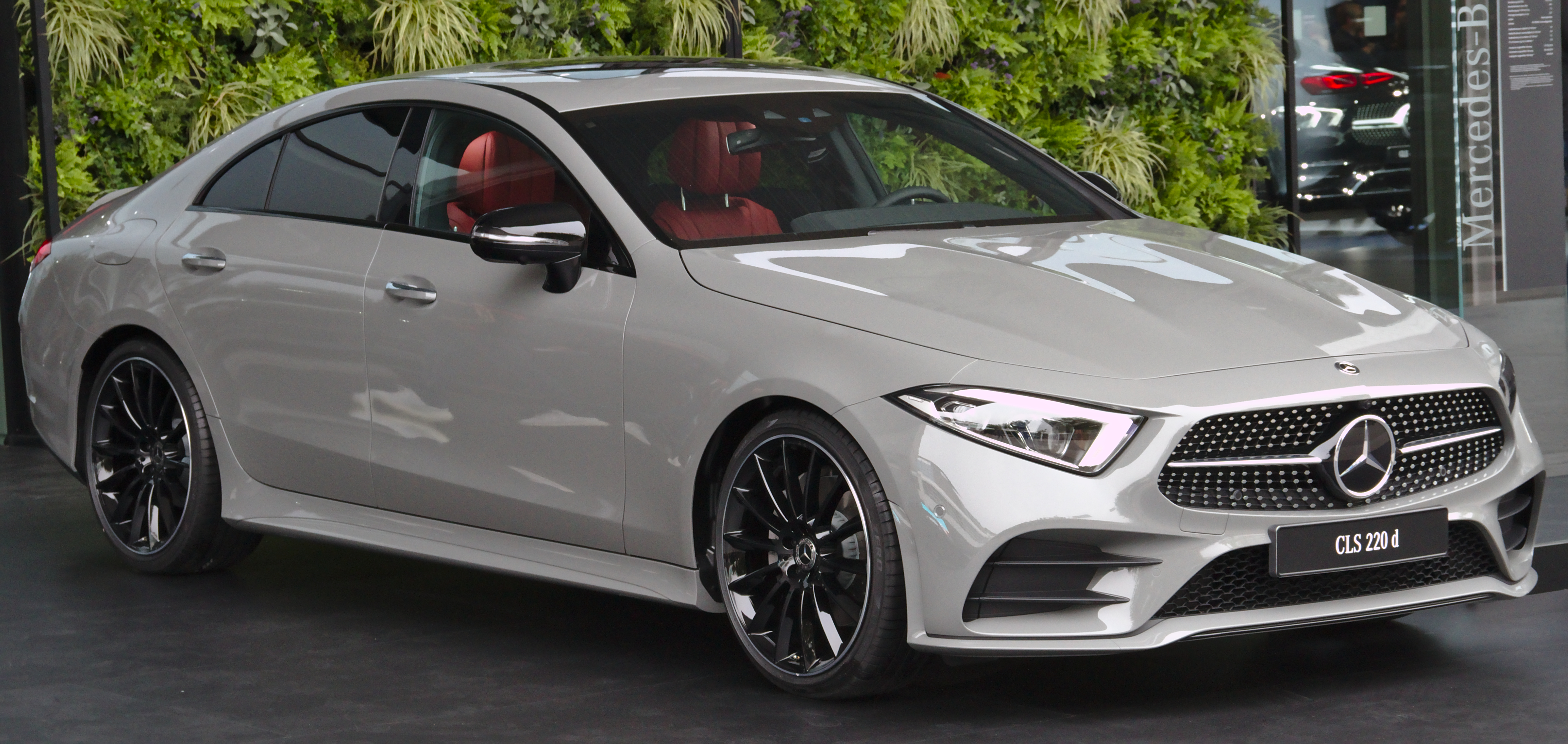 Mercedes-Benz_C257 at IAA 2019